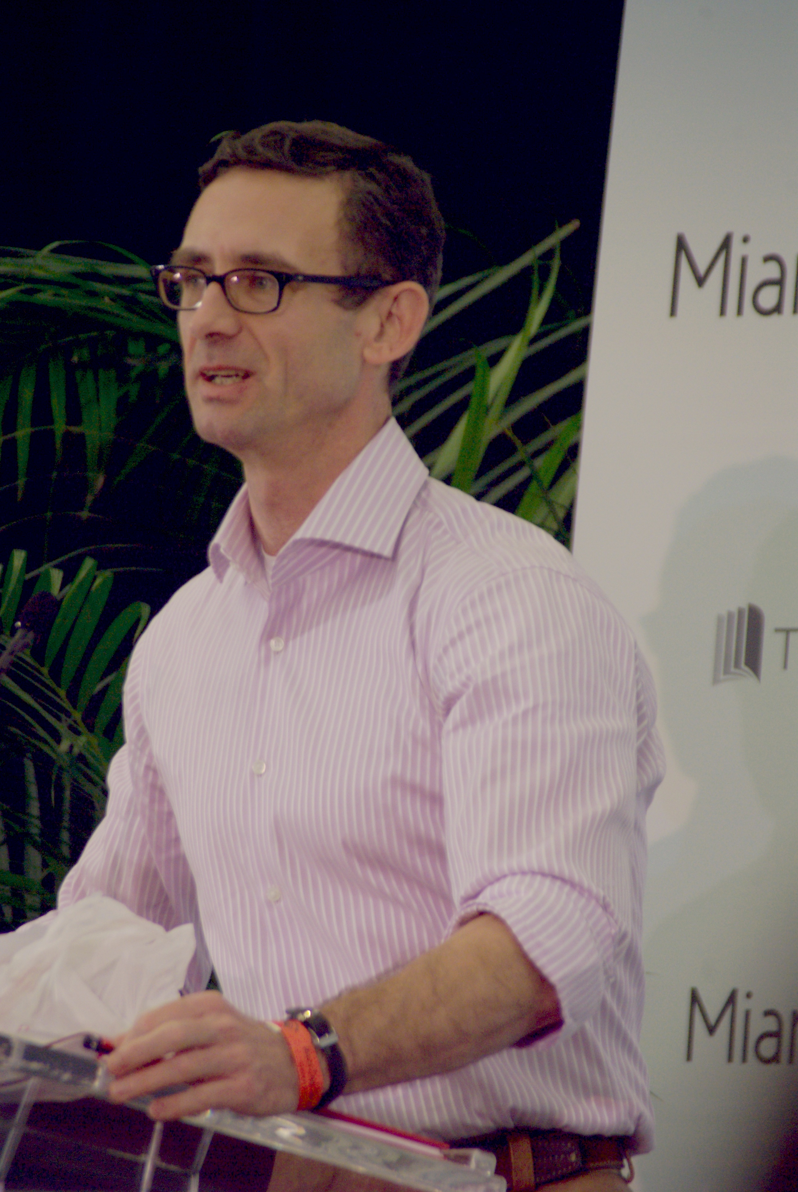 American writer Chuck Palahniuk at the Miami Book Fair International 2011